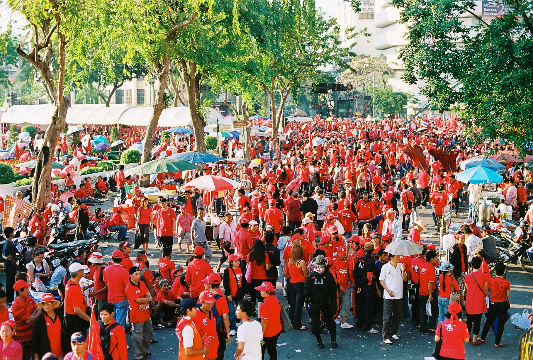 20 de abril 2010 redshirts in Bangkok near Democracy monument.